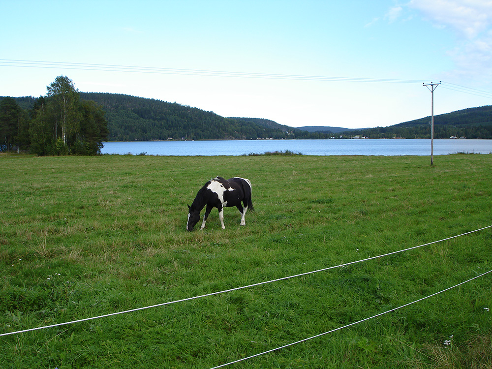 Lake Kornsjösjön in Ångermanland, Sweden, viewed from southwest.